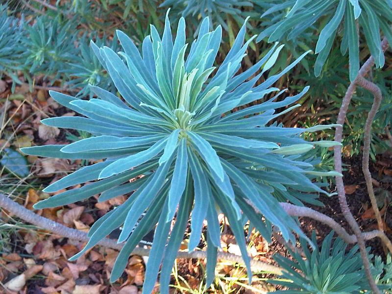 Euphorbia atropurpurea called tabaiba majorera or tabaiba roja in Kew Gardens, England.